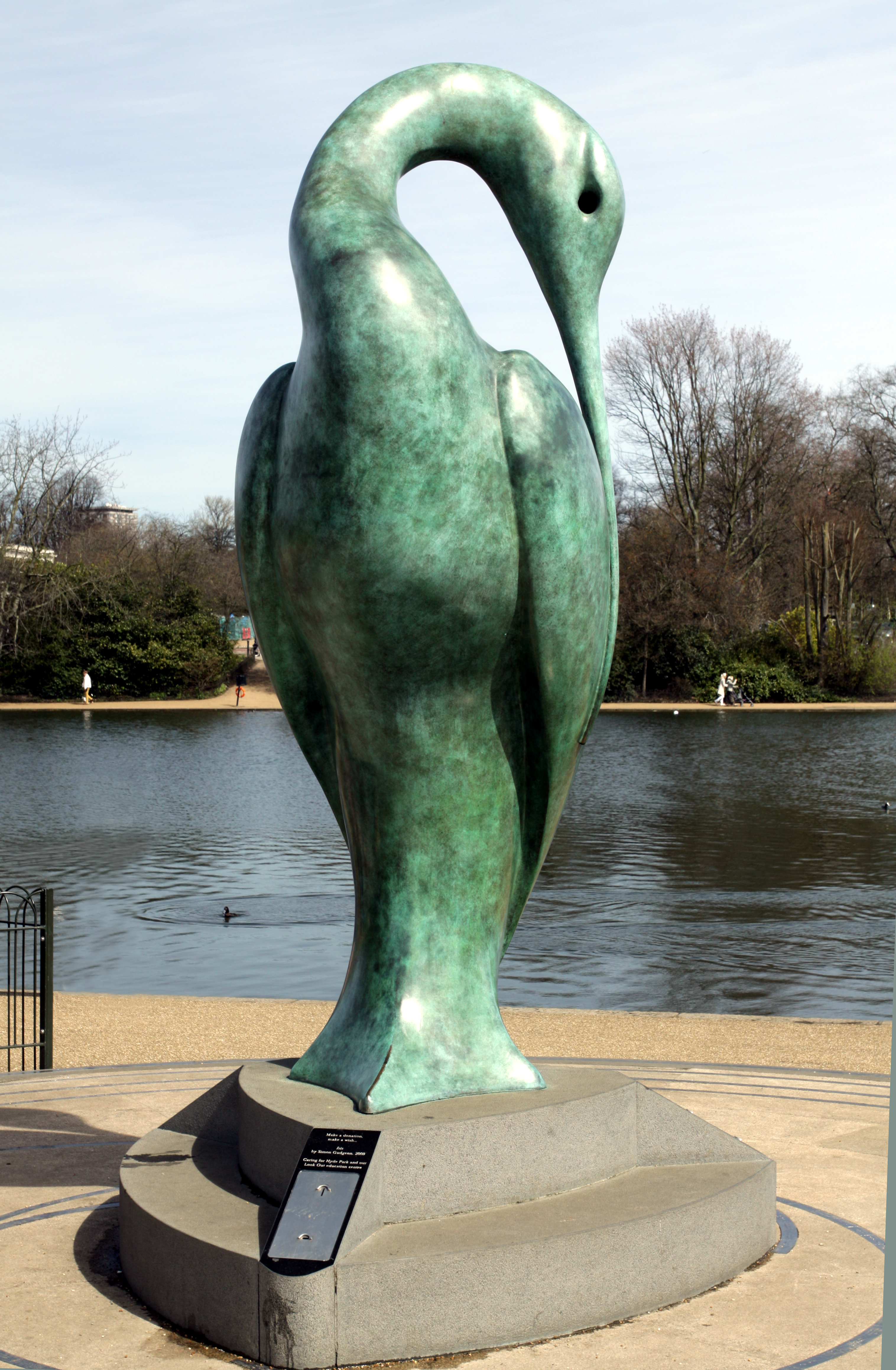 Sculpture of Isis in Kensington Gardens, Hyde Park in the City of Westminster in London, Great Britain. The making of this file was supported by Wikimedia UK.